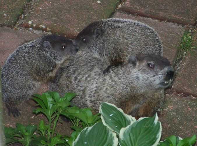 A mother groundhog and her two pups, exploring the suburban back yard in which they were born, 23 May, 2011